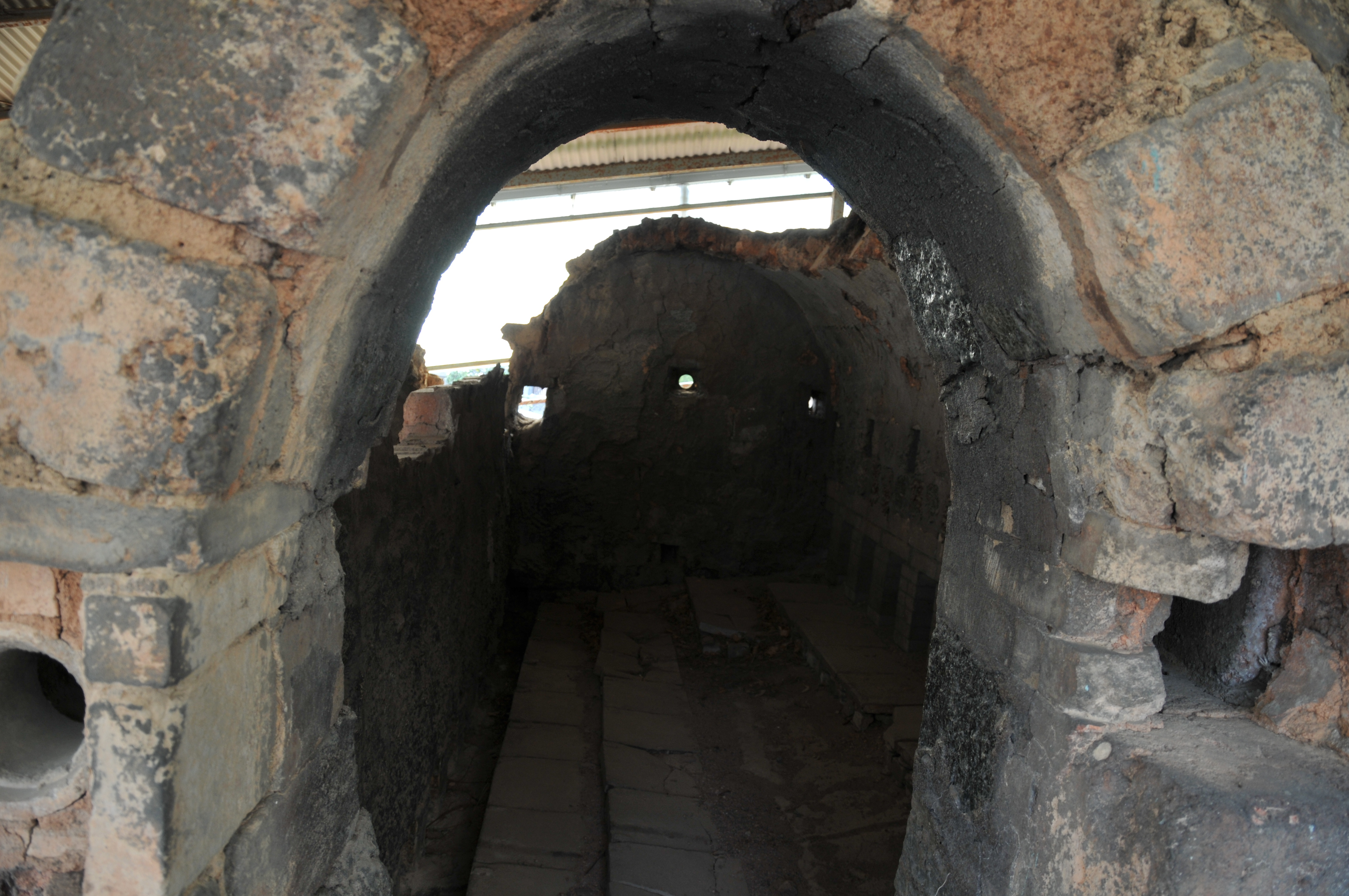 Inside the kiln of Tenpō-gama